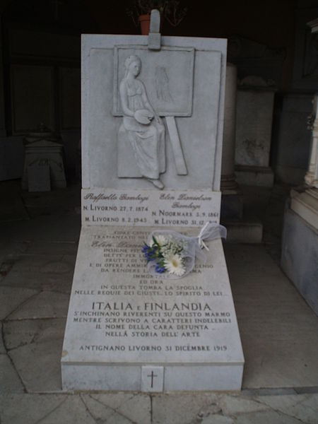 Grave of Elin Danielson-Gambogi and Rafaello Gambogi, Livorno, Italy.